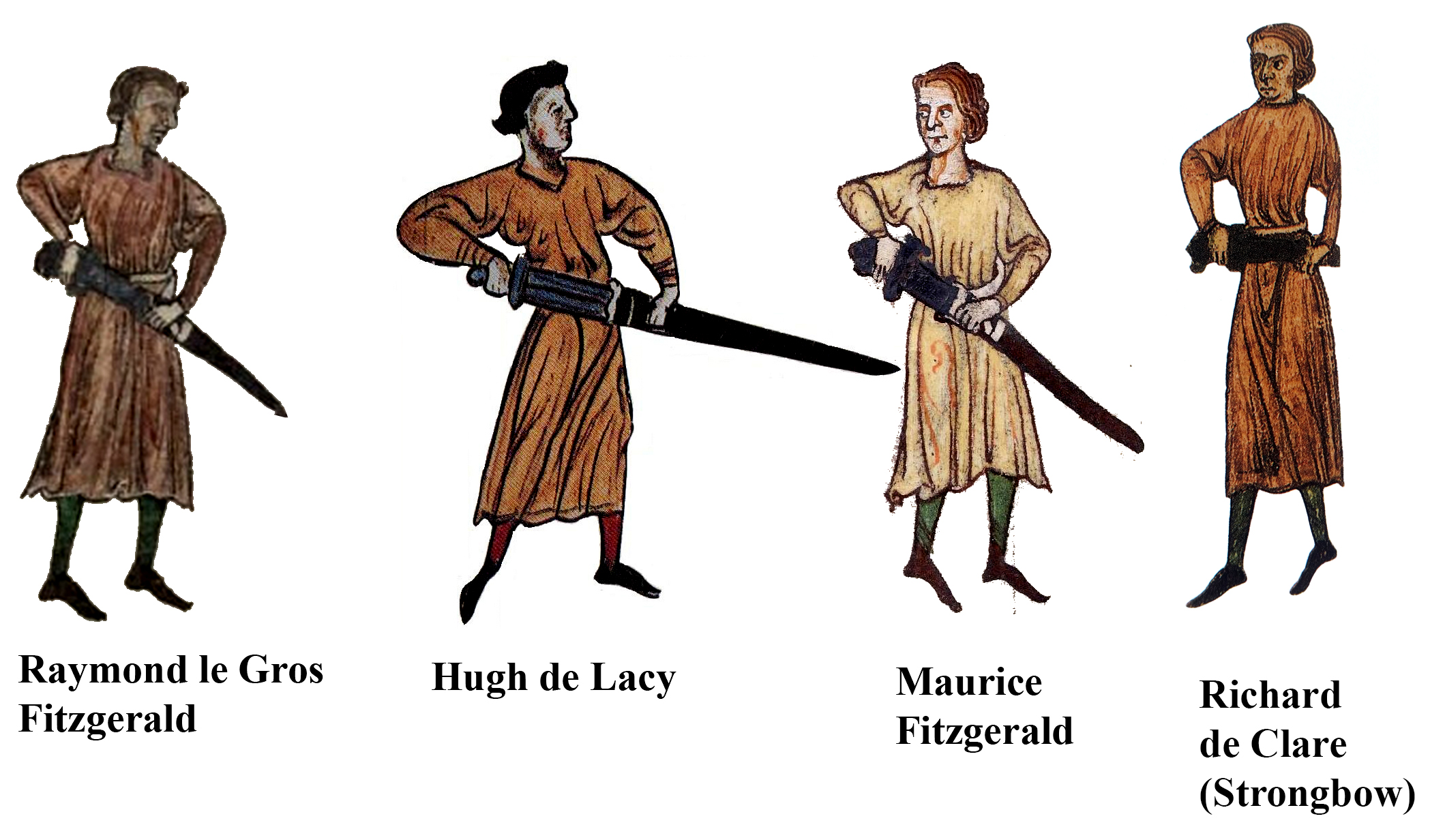 Various leaders of the Norman conquest as depicted by Gerald de Barri.